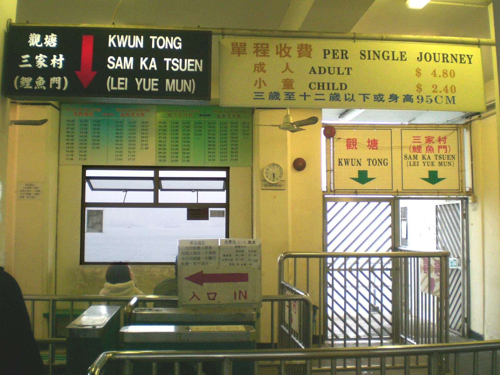 香港東區 太康街 西灣河碼頭